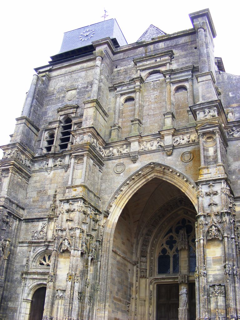 eglise saint louvent de rembercourt